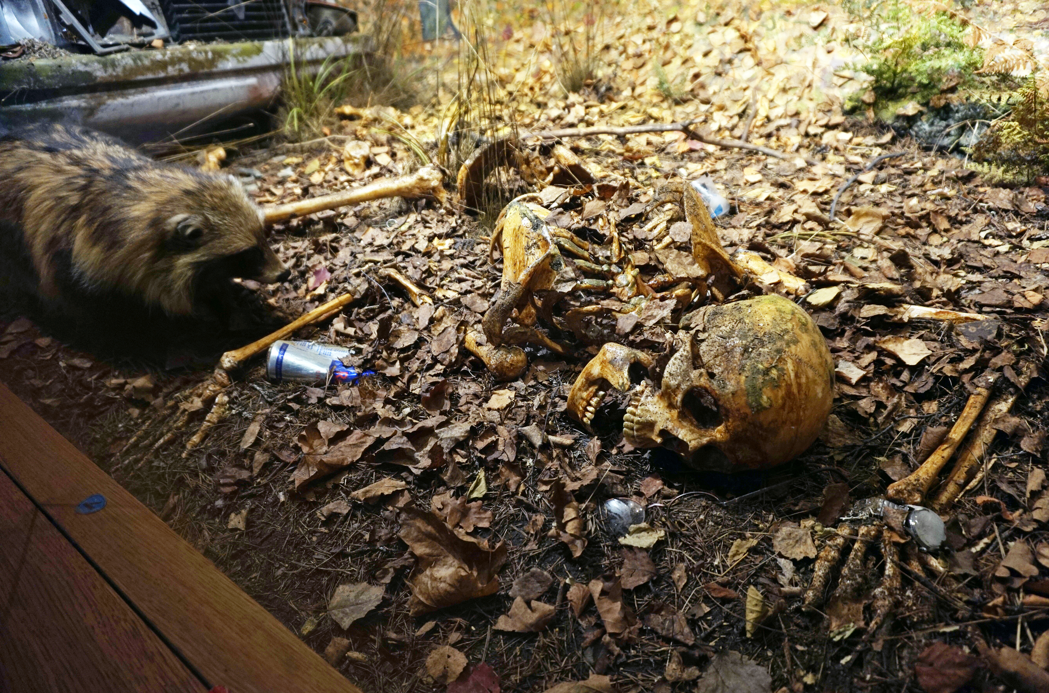 A skeleton in Natural History Museum of Tampere.